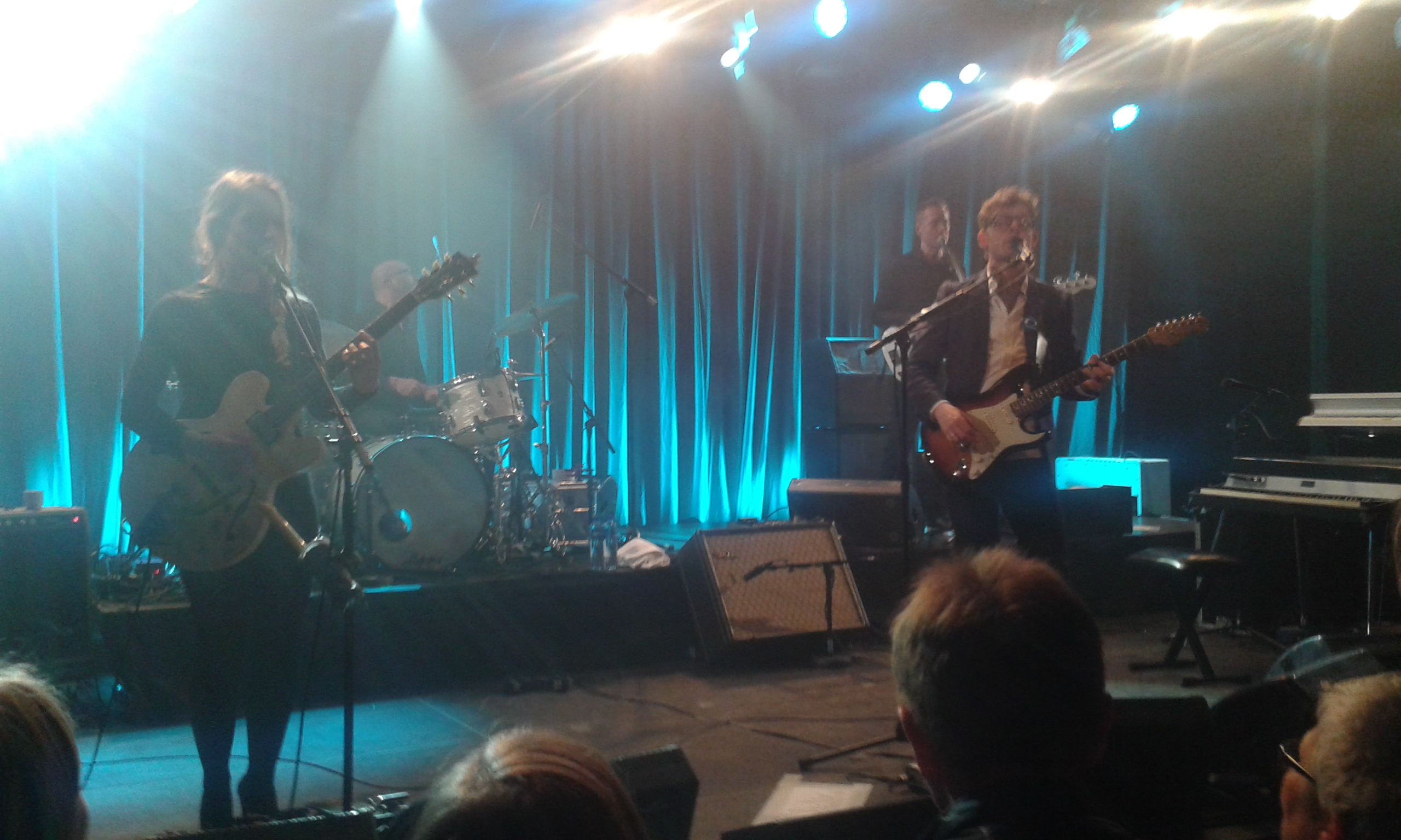 Jarle Bernhoft at Vossajazz 2016.